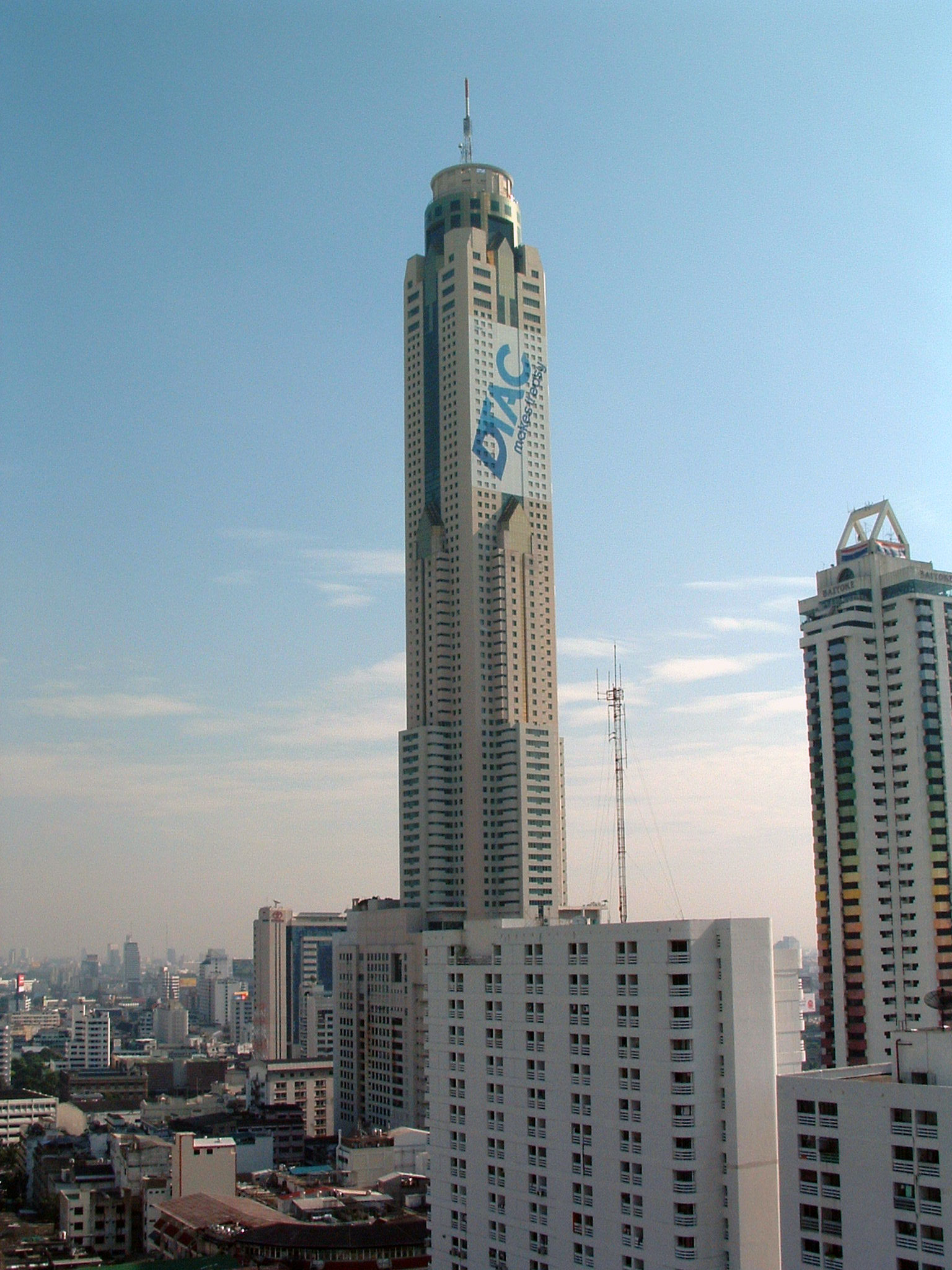 Baiyoke Tower II in Bangkok, Thailand, with a height of 304 m is the tallest building of Thailand.